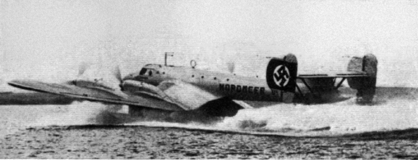 The German Lufthansa Blohm & Voss Ha 139 "Nordmeer" taking off.